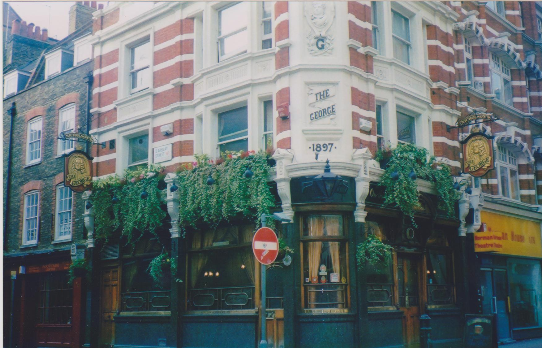 Pub, The George, London